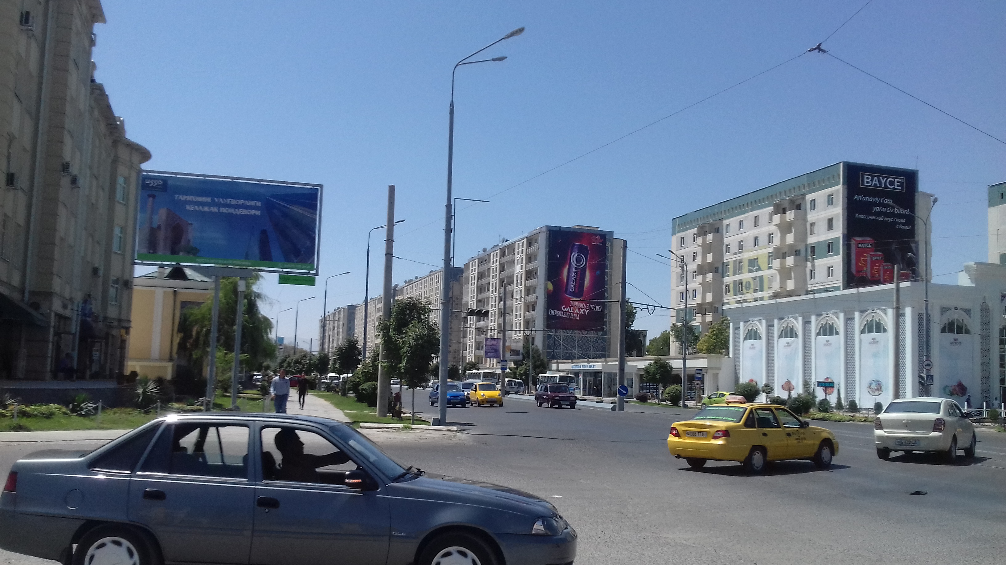 Beruni Street in Samarkand (Uzbekistan)